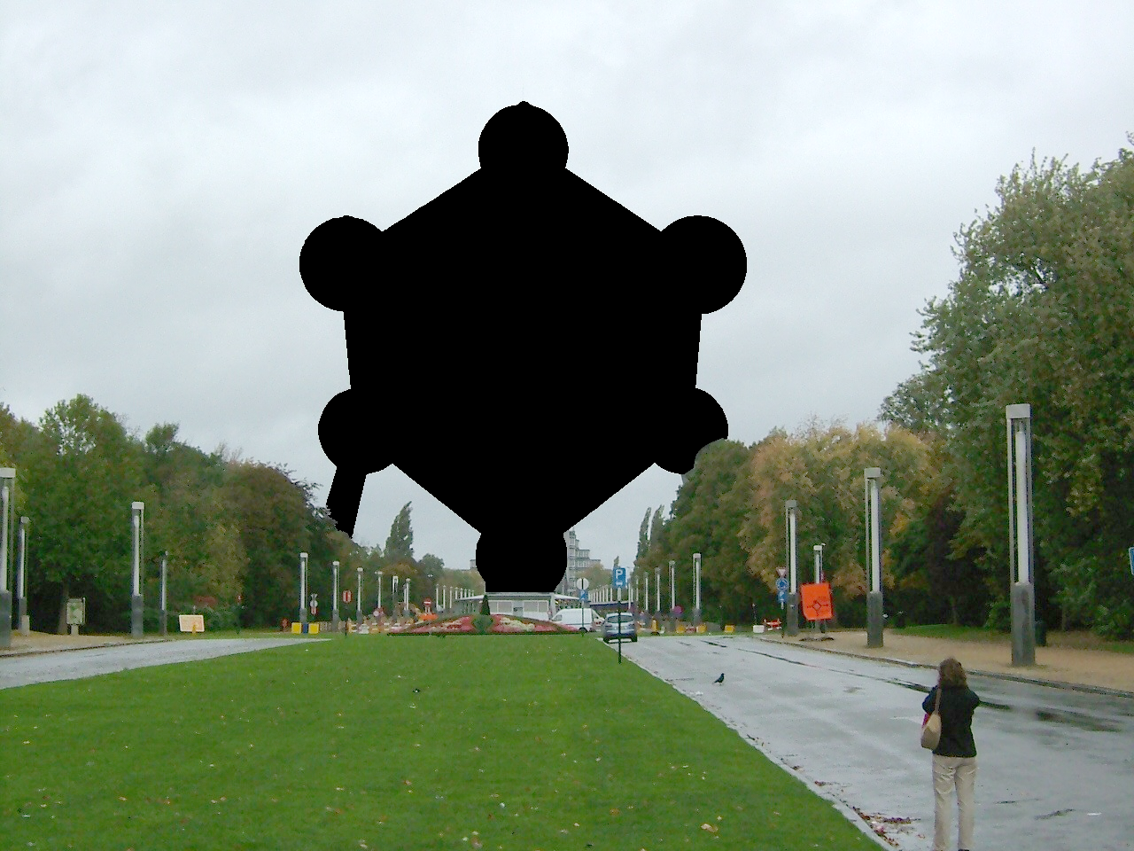 Atomium in Brussels (2006), but because until July 2016 there was no freedom of panorama (FOP) in Belgium, we had to make it black and weren't allowed to show the national monument of Belgium: the Atomium